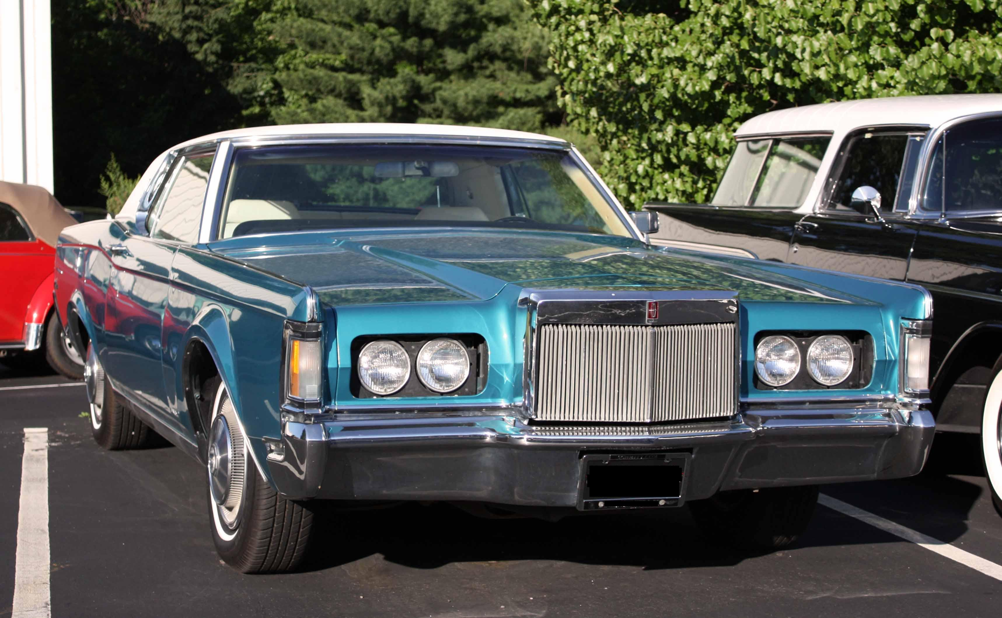 1970 Lincoln Continental Mark III Hard Top